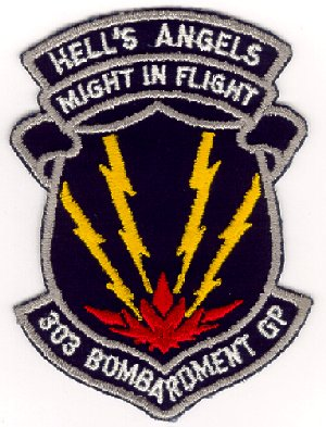 Emblem of the 303d Bombardment Group (World War II)